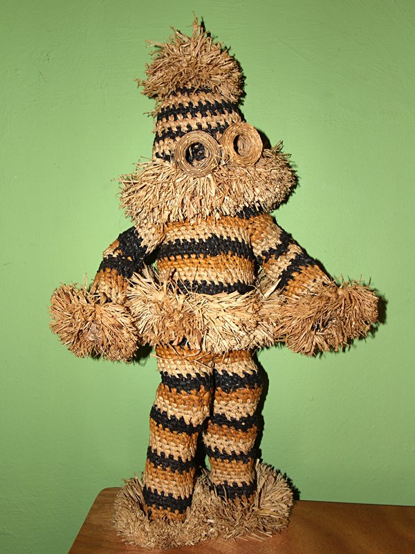 Munganji - spirit dancer The Munganji represents spirits of the ancestors and comes to dance during Pende initiation ceremonies and other important events. Dancers wear full body suits like the one above made from raffia thread.